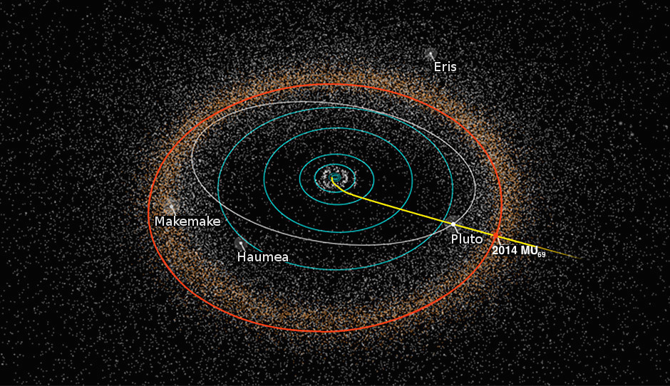 The orbit of 2014 MU69 with the path of New Horizons.